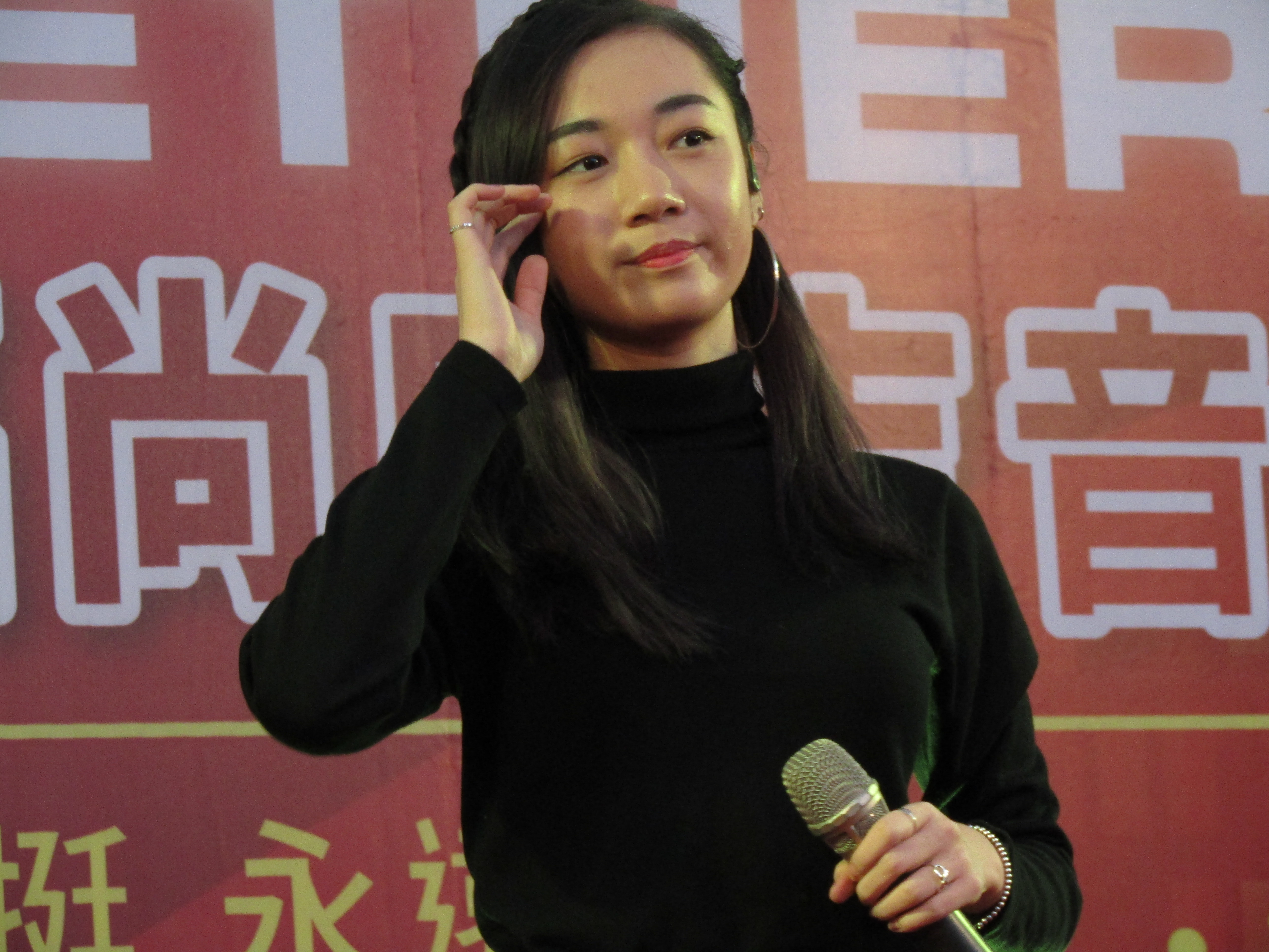 Julia Wu is in Huashan 1914 Creative Park